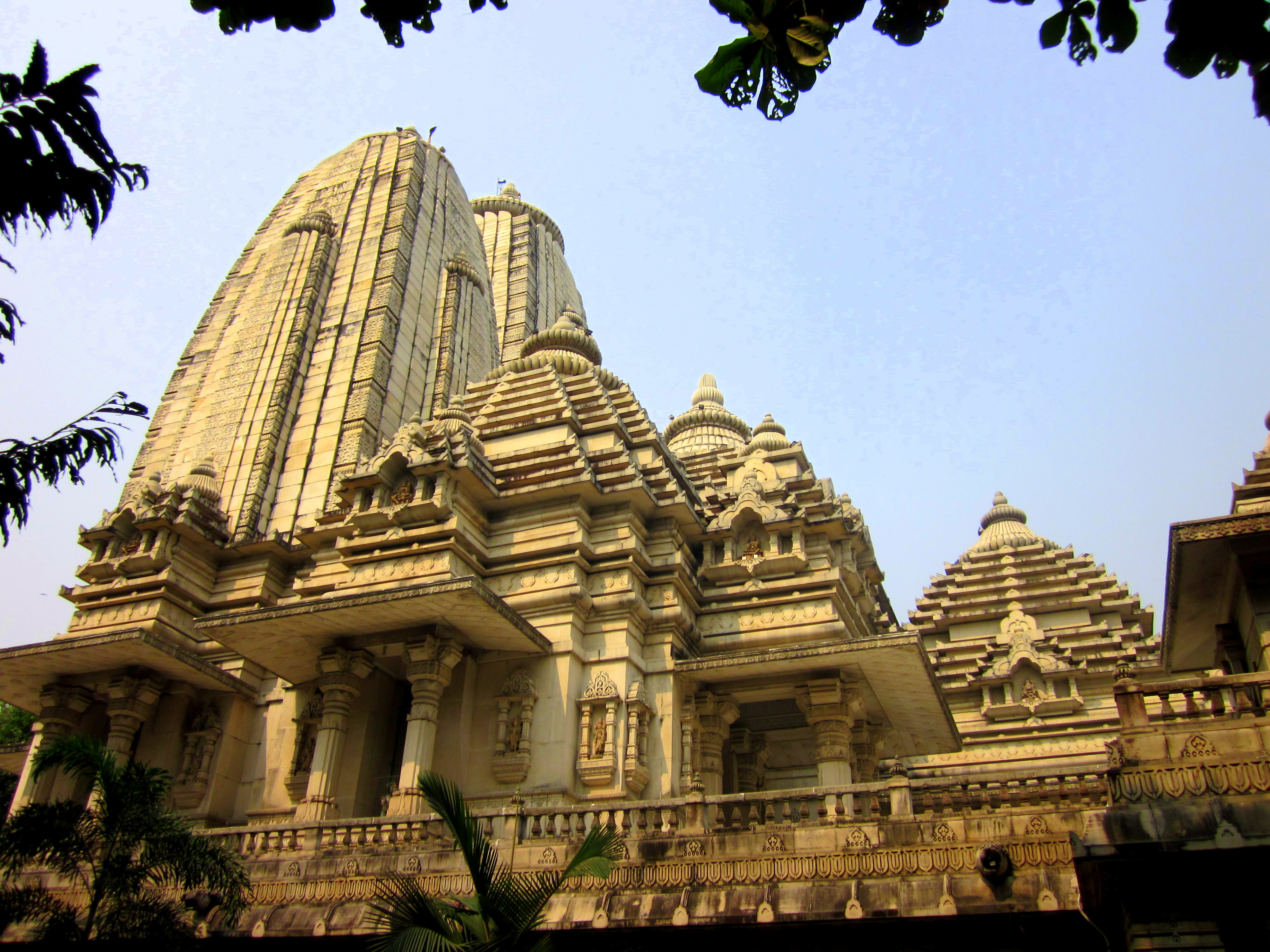 birla temple in kolkatta. its lord shreekirshna and godess radha's temple. west bengal